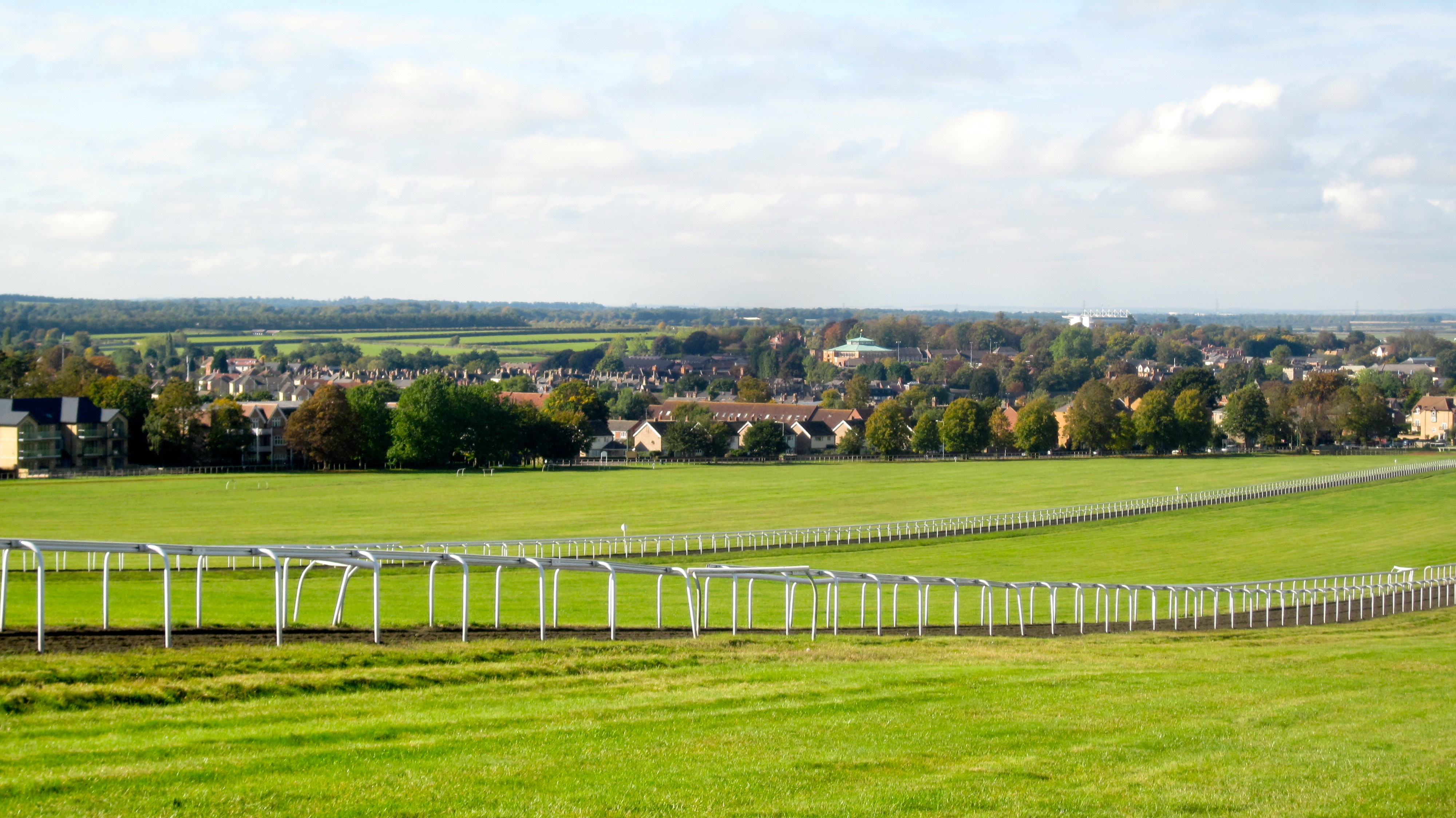 A view of Newmarket, Suffolk, UK, showing part of the extensive Long Hill training grounds, Tattersalls Auctioneers, racing stables, racing studs and the Rowley Mile Racecourse.